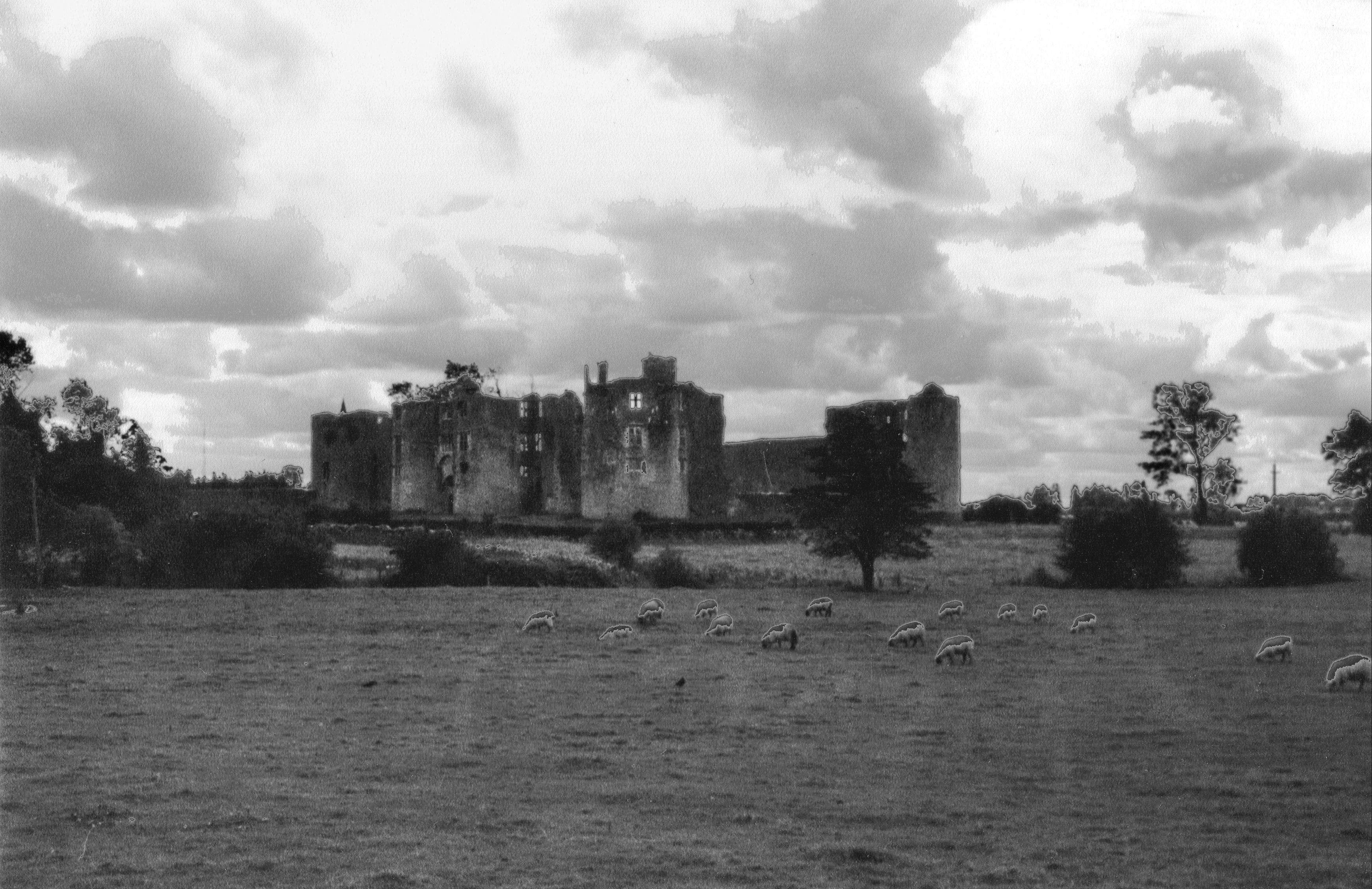 Co. Roscommon, Ireland